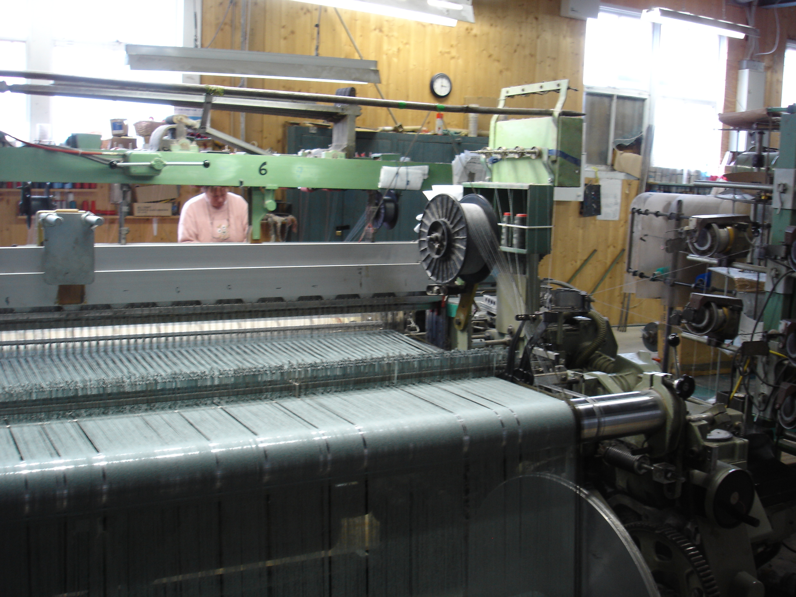 Foxford wollen mill